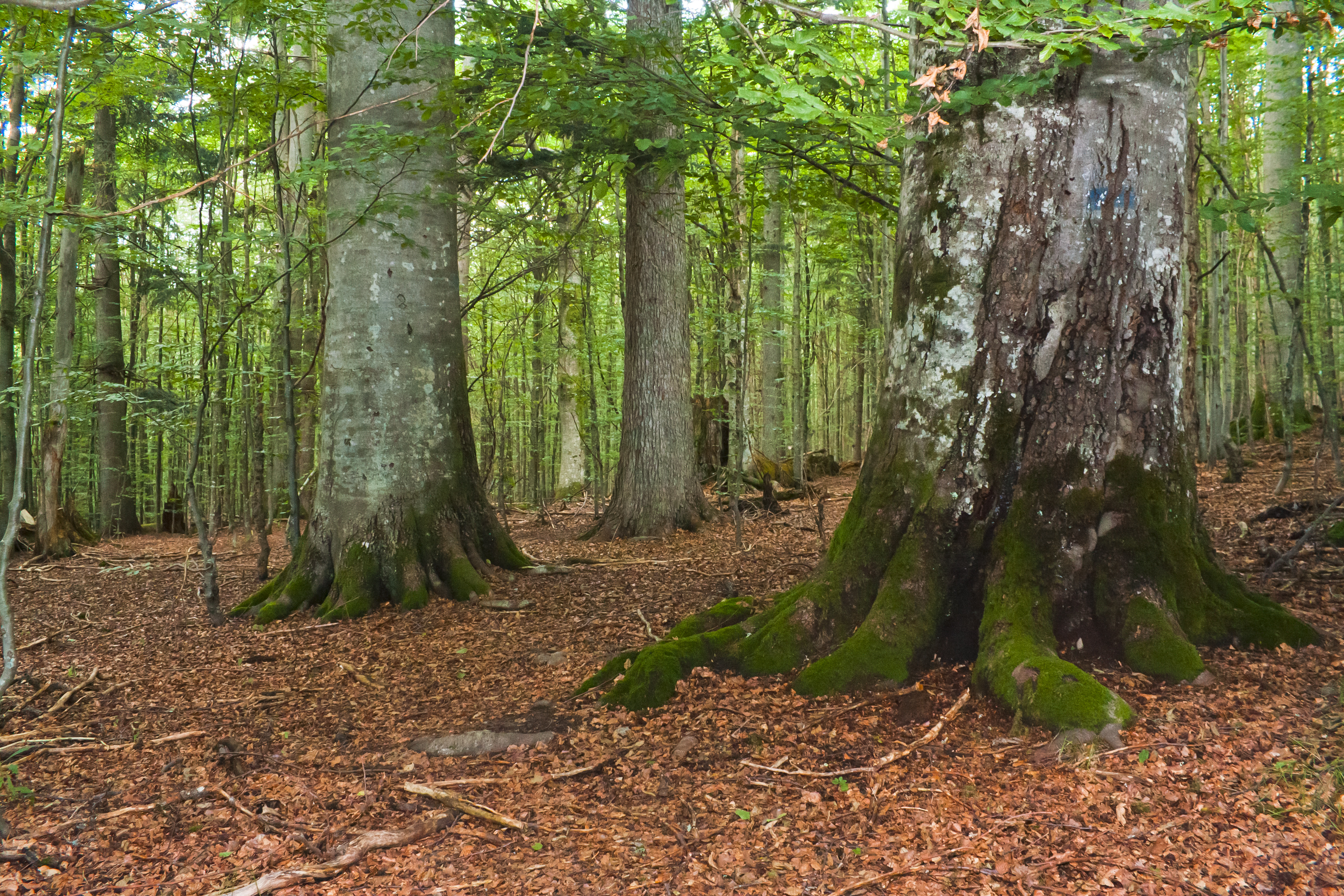 Fagus sylvatica and Picea abies in the pristine forest area Mittelsteighütte, Bavarian Forest Nationalpark